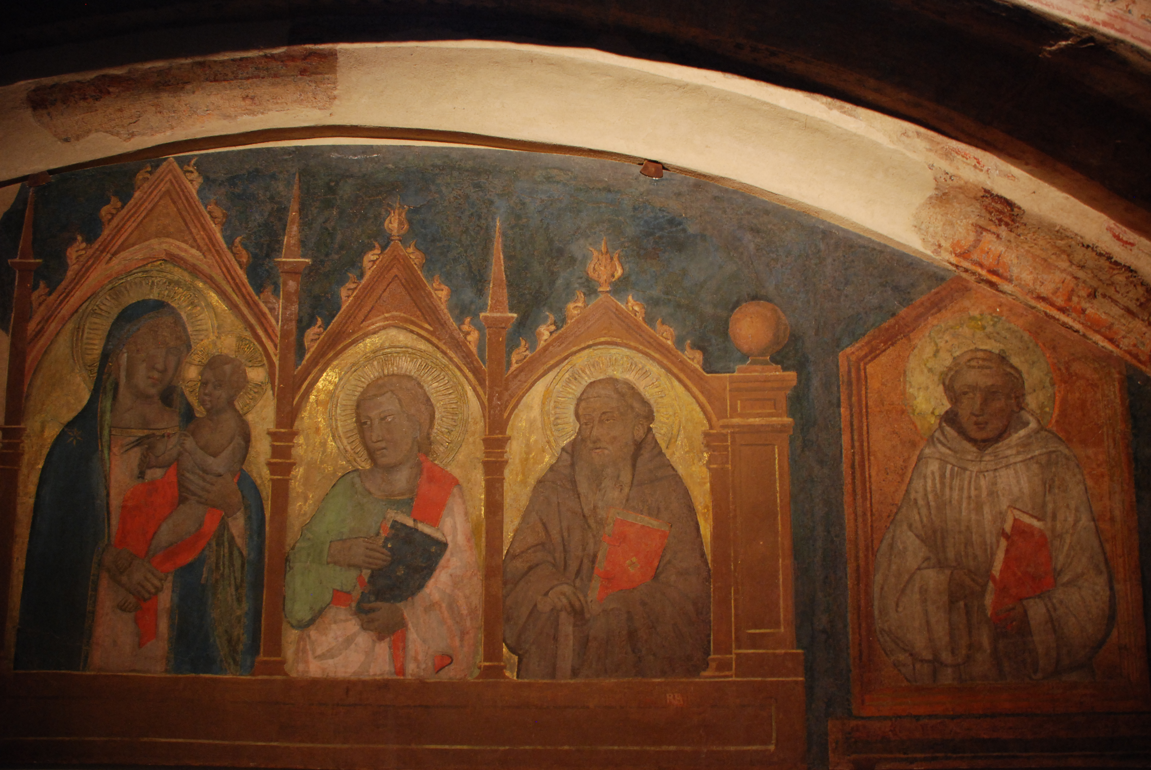 Detail of unknown Fresco at Poppi Castle, Tuscany, Italy